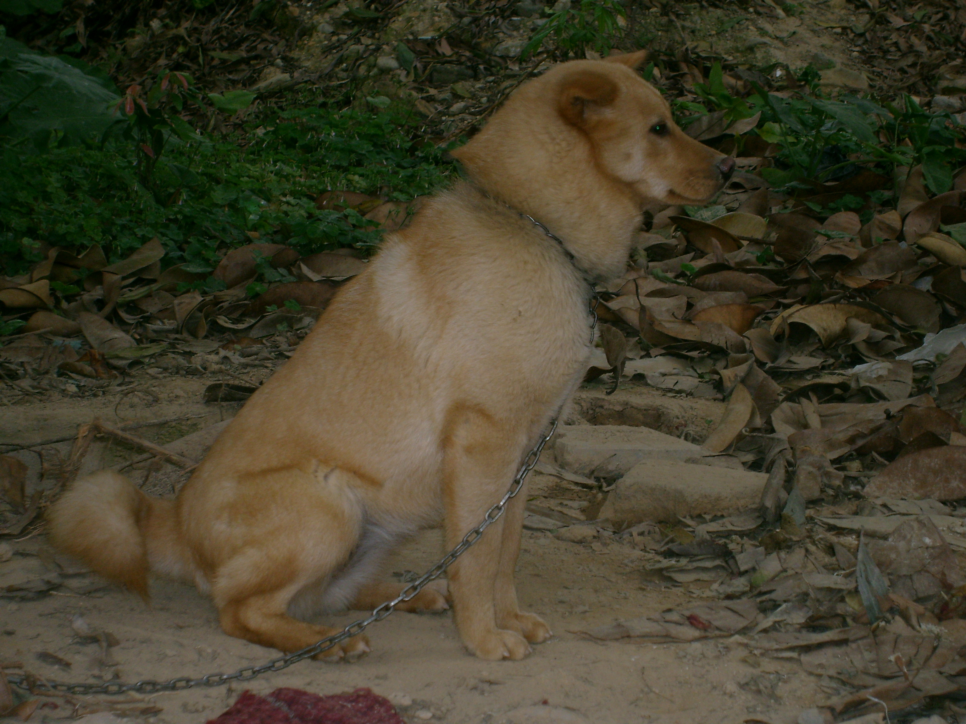 a dog sits in Xianhu Botanical Garden,Shenzhen,Guangdong,China